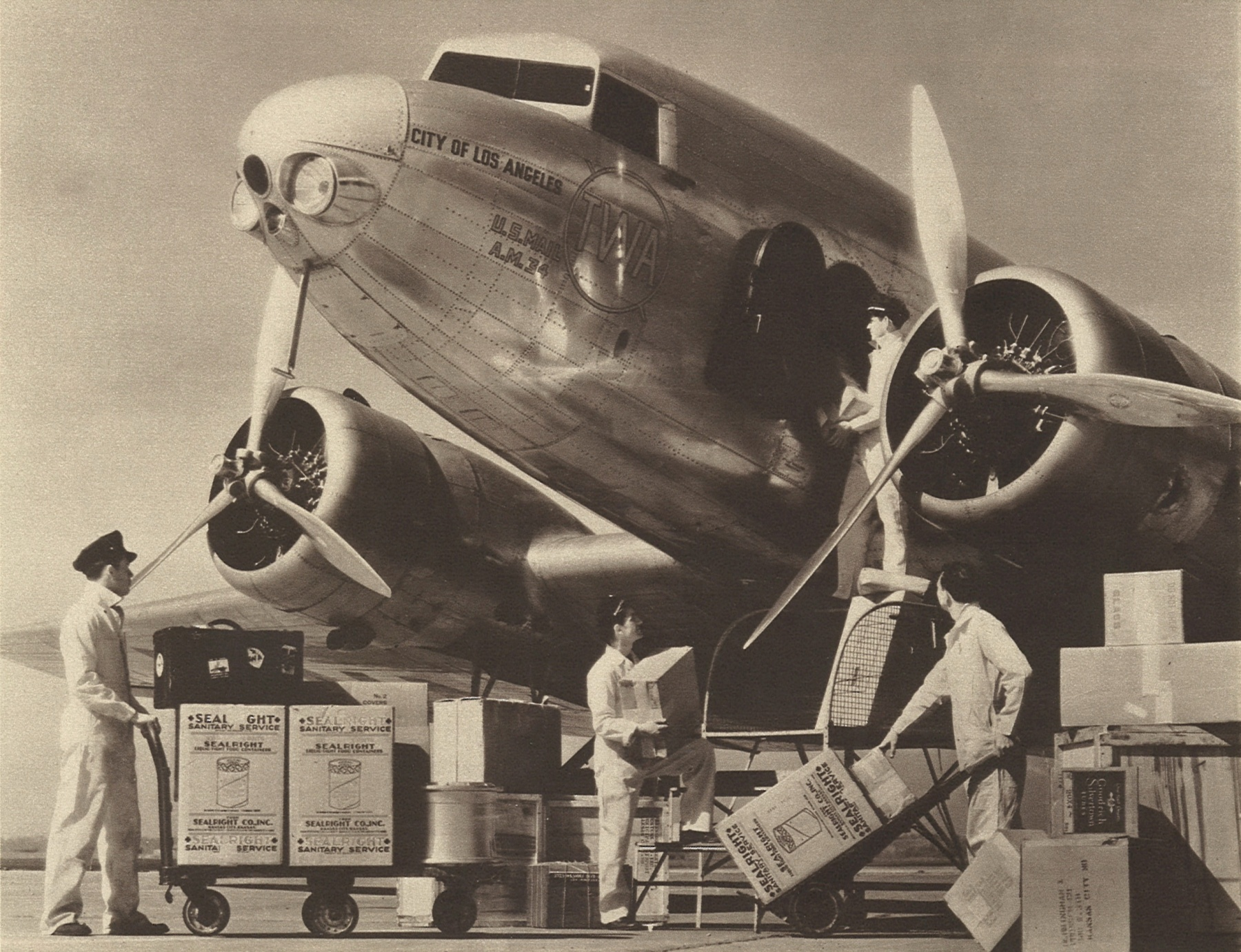 Douglas DC-1 "City of Los Angeles" of TWA (aircraft registration NC 223Y).